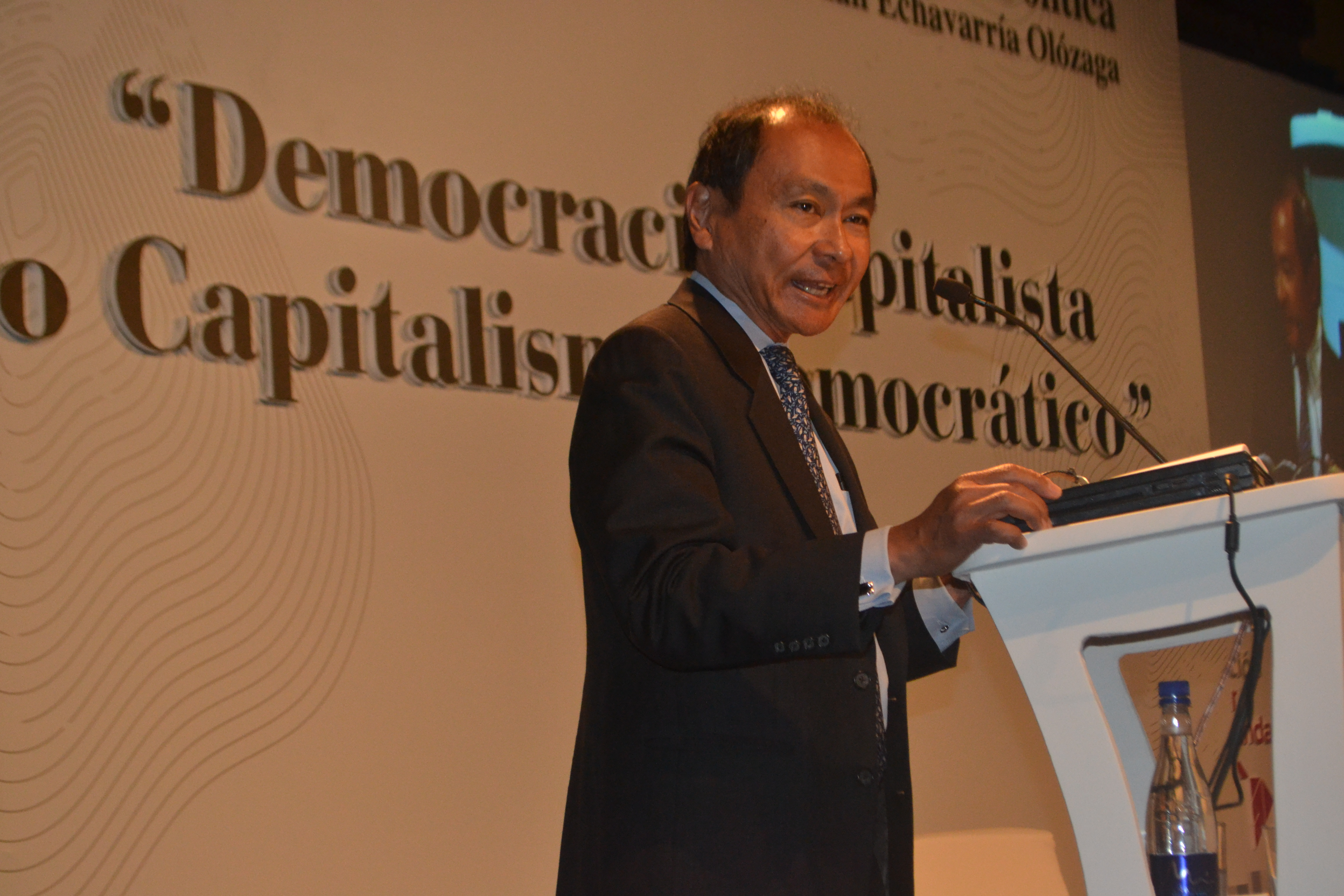 Francis Fukuyama, political scientist and economist.